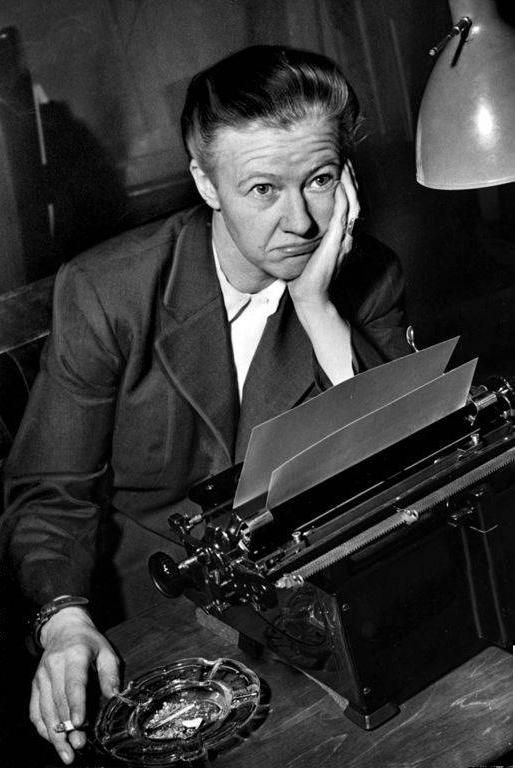 Photo of Barbro Alving, 1951.